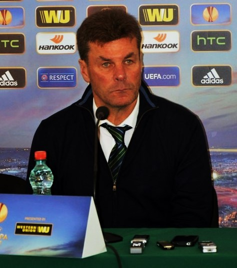 Dieter Hecking